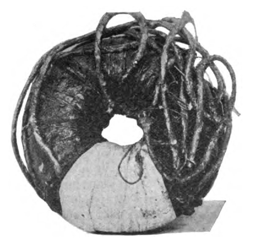 A loading coil for a 1922 AT&T long distance telephone trunkline between New York and Chicago. It consists of a toroidal iron core with two 0.175 H windings. Each twisted pair in the telephone trunkline is attached to a loading coil. The coils are contained in steel tanks on the telephone pole, immersed in oil. The line required a loading coil every 6000 ft.